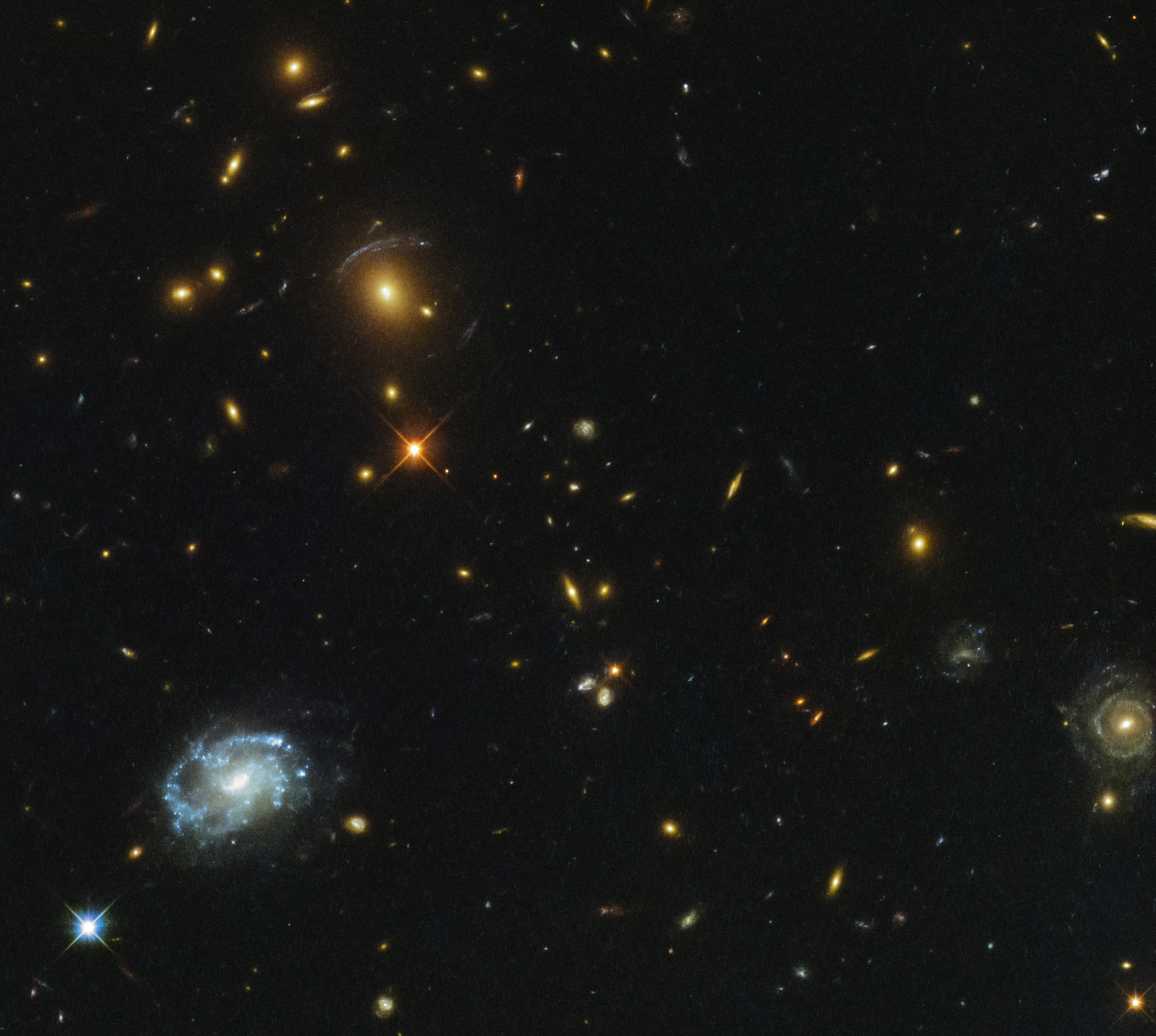 Though the bright, light-speckled foreground galaxy on the left is eye-catching, it is far from the most intriguing object in this NASA/ESA Hubble Space Telescope image. In the upper part of the frame, the light from distant galaxies has been smeared and twisted into odd shapes, arcs, and streaks. This phenomenon indicates the presence of a giant galaxy cluster, which is bending the light coming from the galaxies behind it with its monstrous gravitational influence. This cluster, called SDSSJ0150+2725, lies some three billion light-years away and was first documented by the Sloan Digital Sky Survey (SDSS), hence its name. The SDSS uses a 2.5-metre optical telescope located at the Apache Point Observatory in New Mexico to observe millions of objects and create detailed 3D maps of the Universe. This particular cluster was part of the Sloan Giant Arcs Survey (SGAS), which detected galaxy clusters with strong lensing properties; their gravity stretches and warps the light of more distant galaxies sitting behind them, creating weird and spectacular arcs such as those seen here. The Hubble data on of SDSSJ0150+2725 were part of a study of star formation in brightest cluster galaxies (called BCGs), lying between approximately 2 and 6 billion light-years away. This study found the star formation rate in these galaxies to be low, which is consistent with models that suggest that most stars in such galaxies form very early on. These BCGs also emit strong radio signals thought to be from active galactic nuclei (AGN) at their centers, suggesting that the activity from both the AGN and any ongoing star formation is fuelled by cold gas found within the host galaxies.